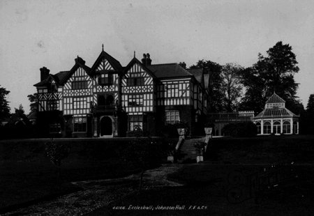 Eccleshall, Johnson Hall 1900